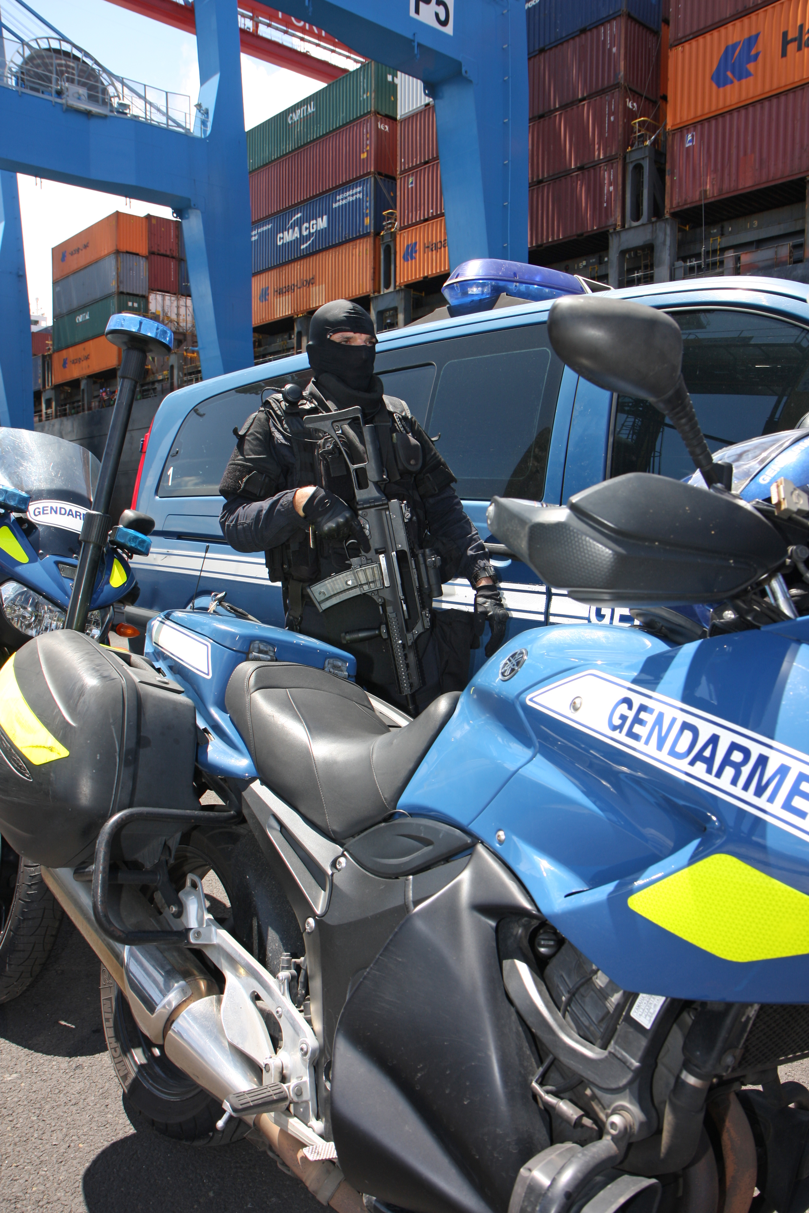 Convoy escort by French Gendarmerie AGIGN